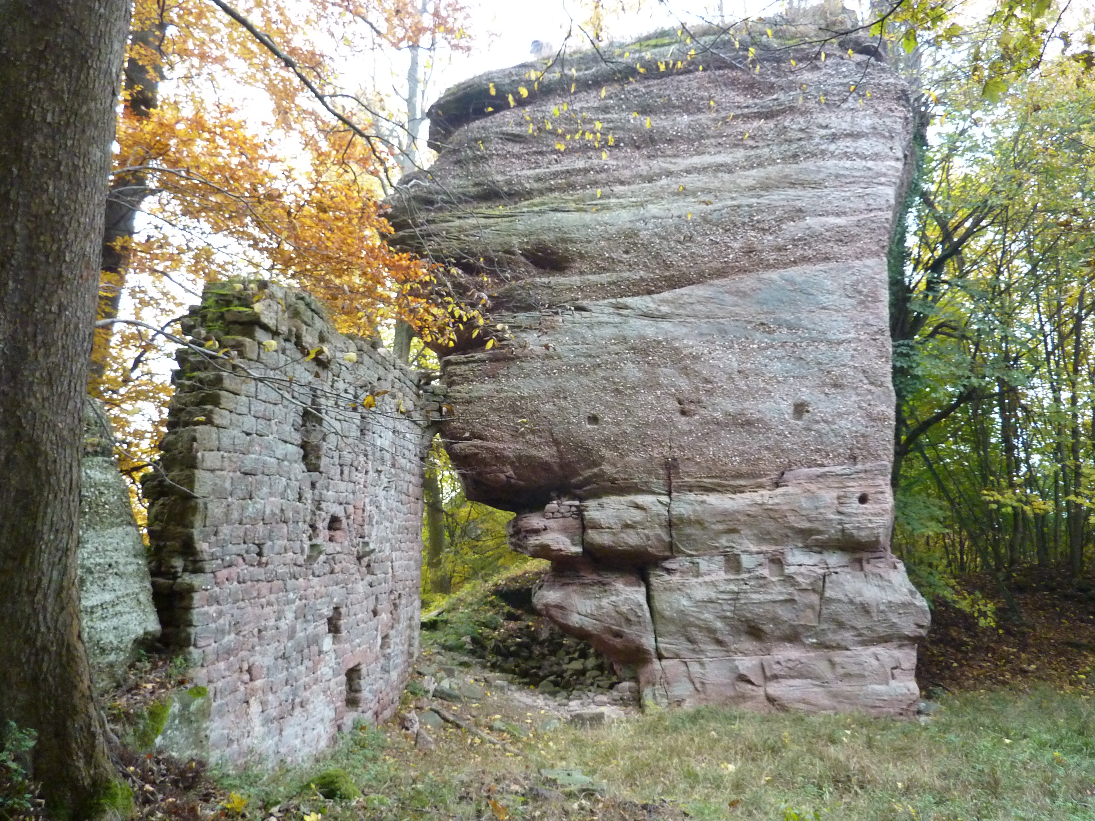 Wachelheim castle, Bas-Rhin, France. South side.